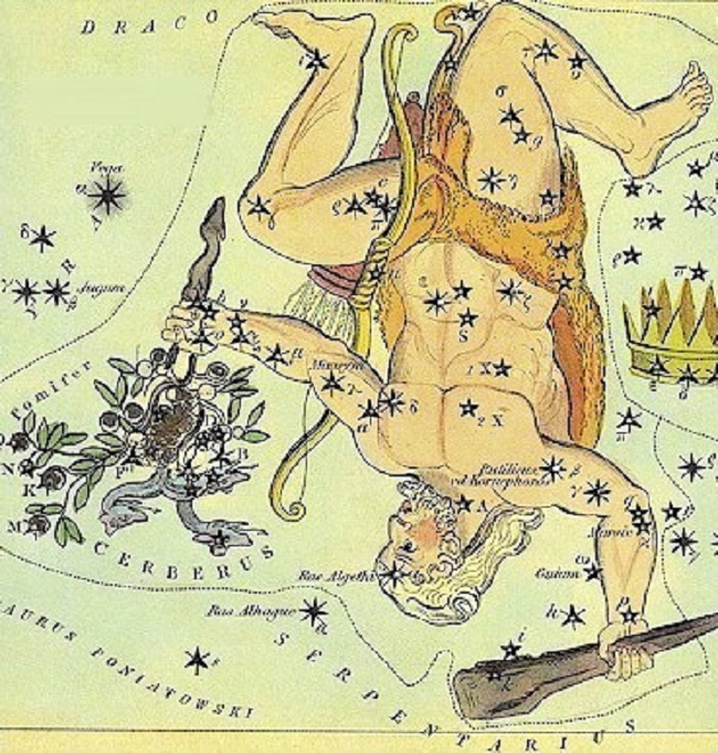 Hercules Constellation engraved by Sidney Hall